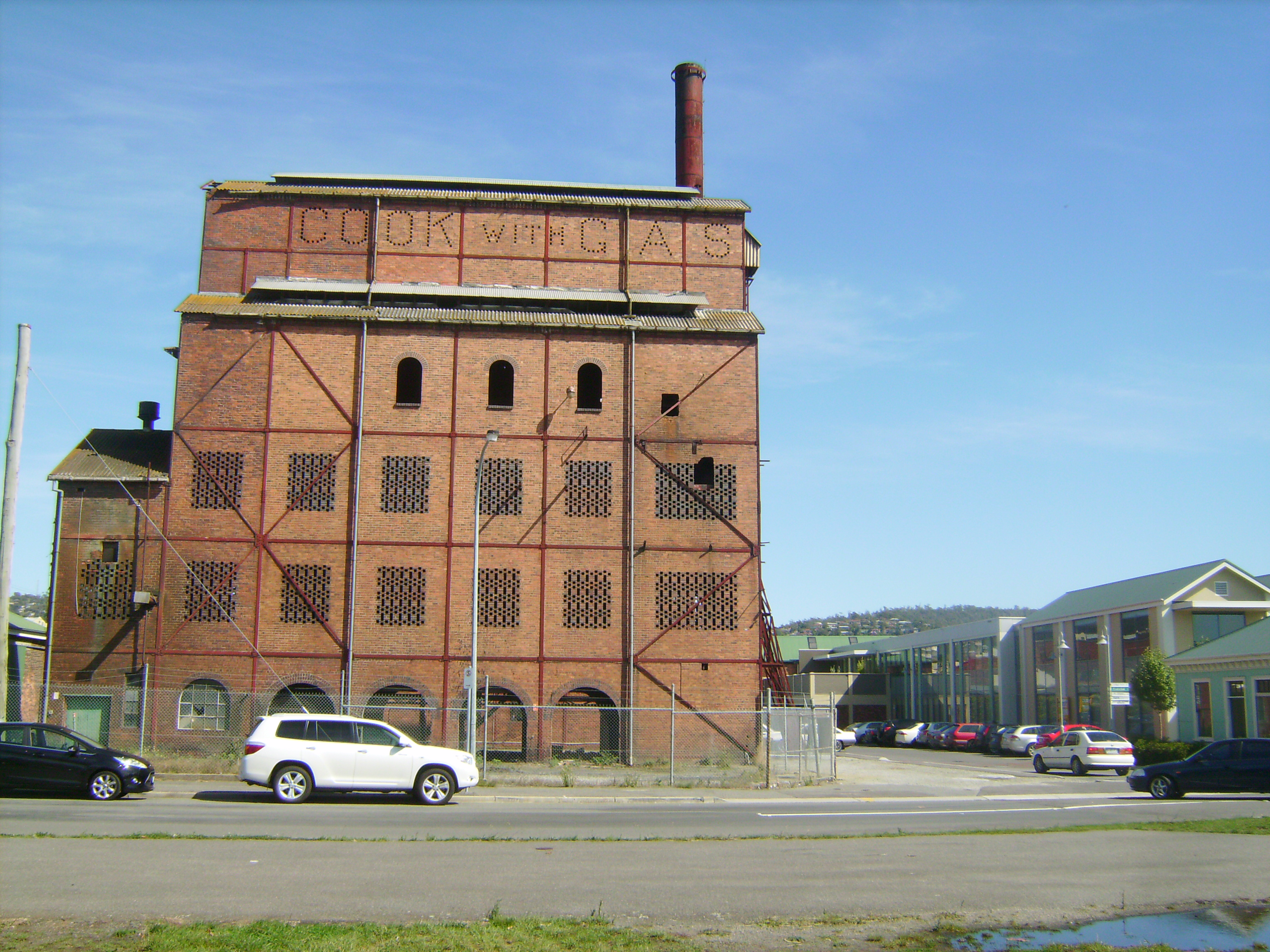 Launceston Gas Works' 1930s Vertical Retort from Willis Street, March 2011